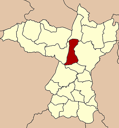 Map of Khon Kaen Province, Thailand, highlighting the district Ban Fang (อำเภอบ้านฝาง)